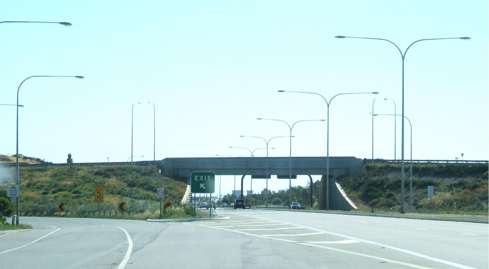 Looking west towards the Port River Expressway and Craig Gilbert Bridge at South rd intersection, South Australia